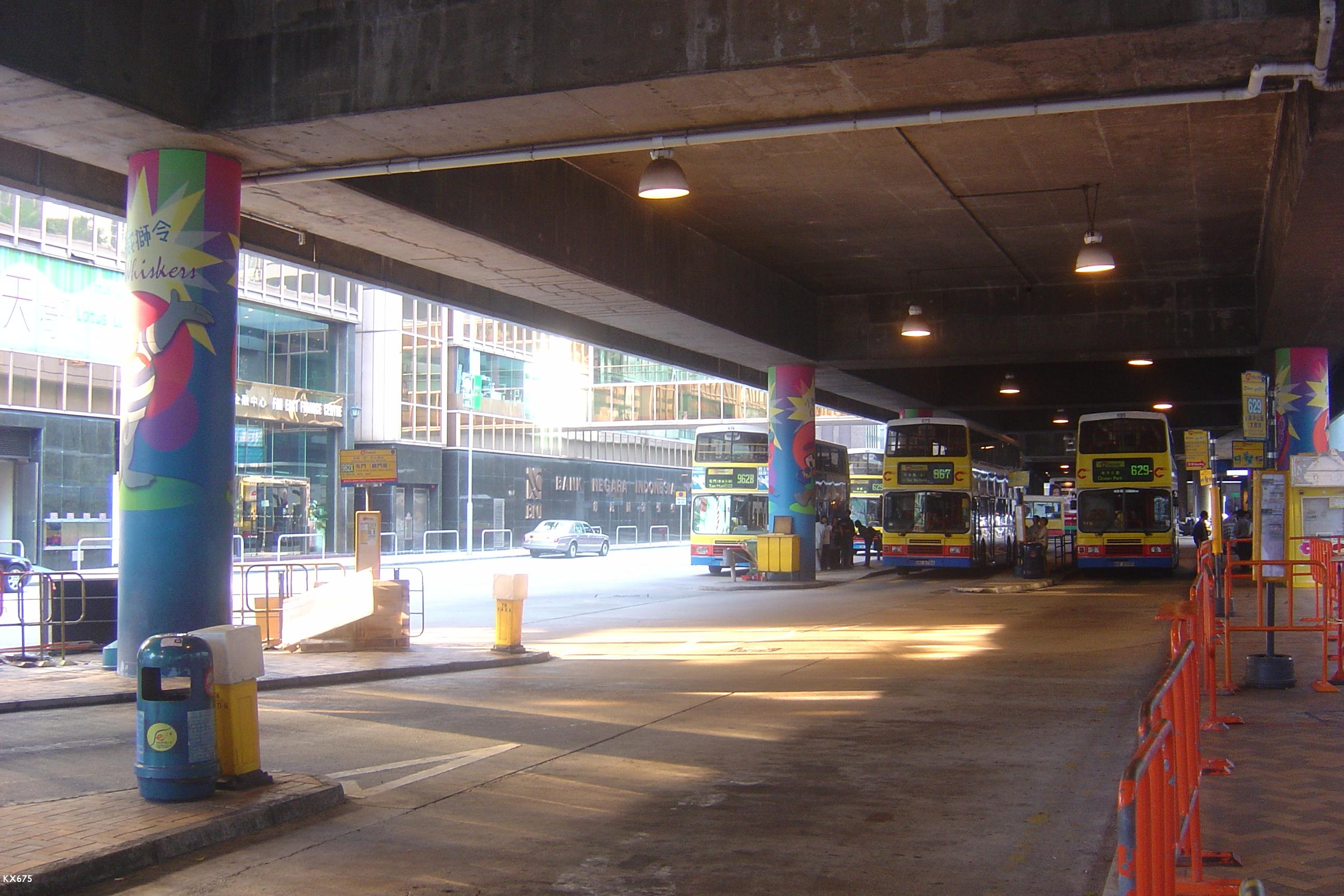 Admiralty (West) Public Transport Interchange, Admiralty, Hong Kong. 中文（香港）: 金鐘（西）公共運輸交匯處